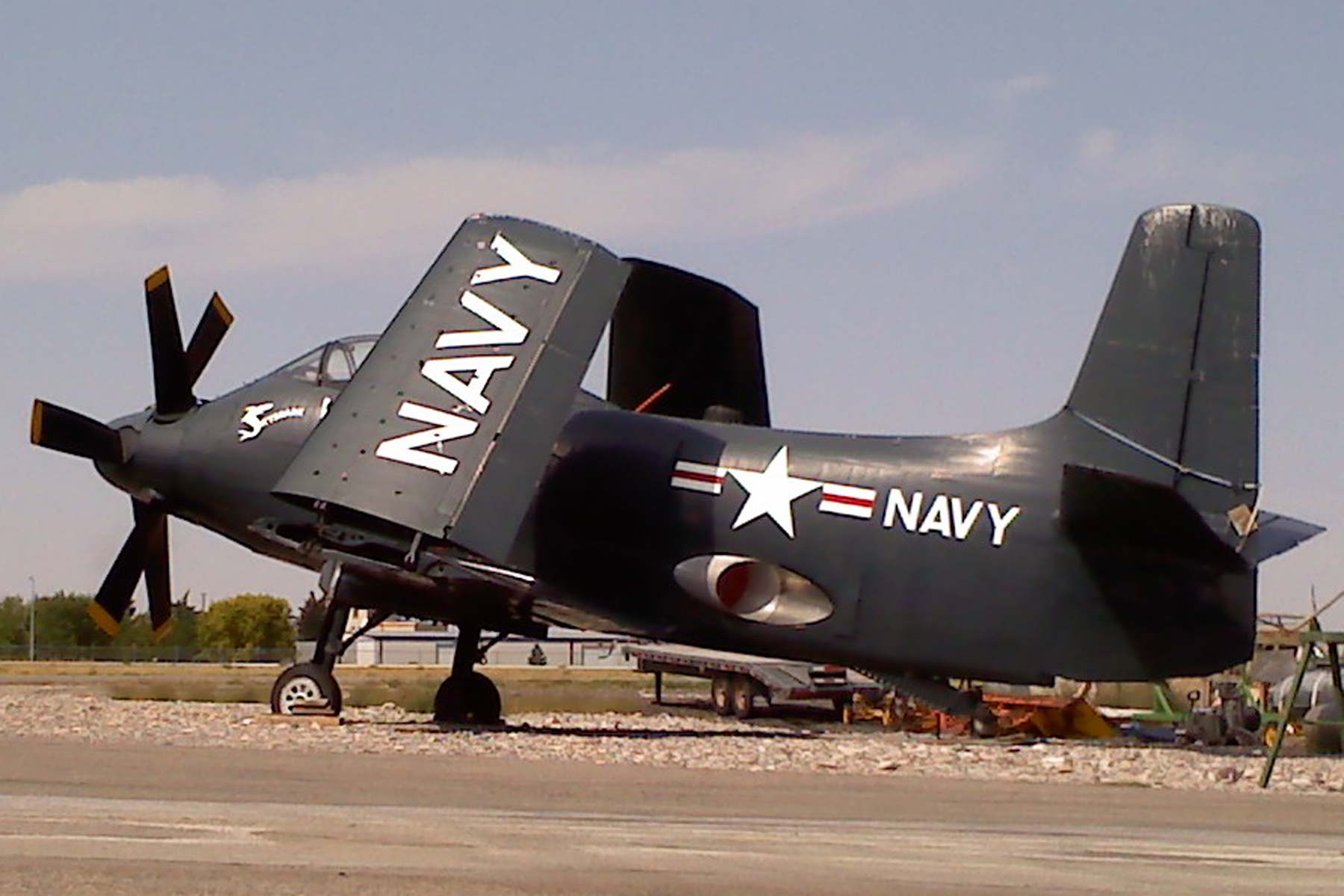 Douglas A2D Skyshark on static display at Pacific Fighters adjacent to Idaho Falls Regional Airport.